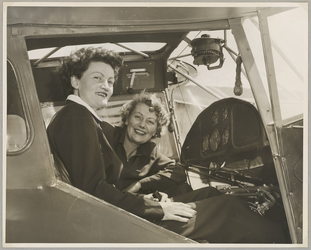 Australian News and Information Bureau Inscriptions: "Entrant 1953 Meg Cornwell and Margaret Sincotts"--On mount; "Margaret Sincotts & Meg Cornwell Entrants 1953 1st Women's Air Reliability"--In pencil on verso; Department of the Interior Australian News and Information Bureau stamps on verso.; Part of the collection: Australian Women Pilots' Association.; Catalogue record generated as part of a batch load.; Also available in an electronic version via the internet at: .au/nla.pic-vn5015546. Persistent URL .au/nla.pic-vn5015546